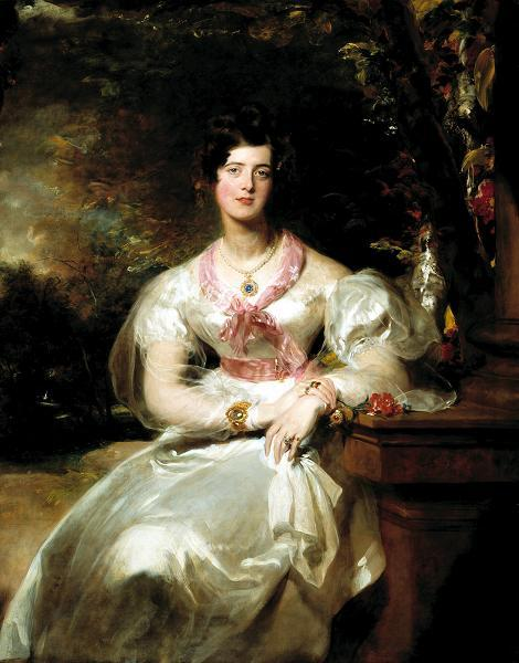 In 1829 Julia Hankey (d. 1877) married Lt. Colonel the Hon. Thomas Seymour Bathurst, a younger son of the 3rd Earl Bathurst. They were the parents of the 6th Earl Bathurst.